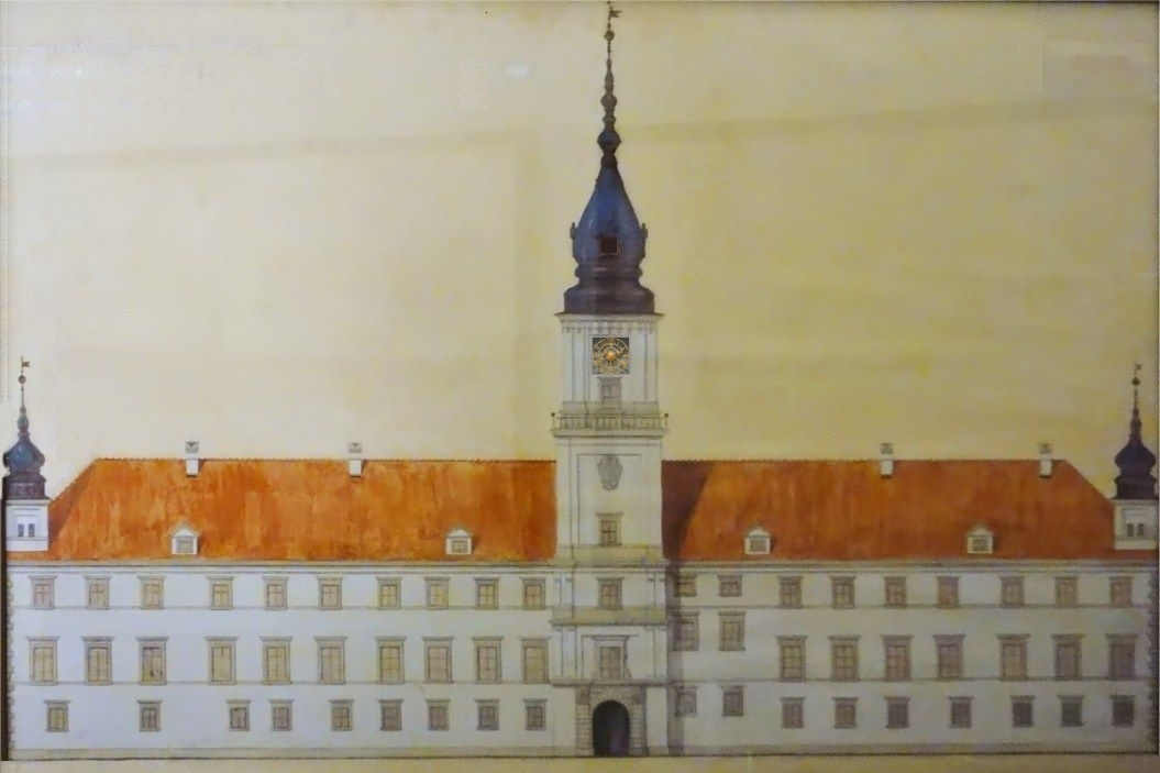 The Royal Castle in Warsaw, Poland concept of reconstruction and color.